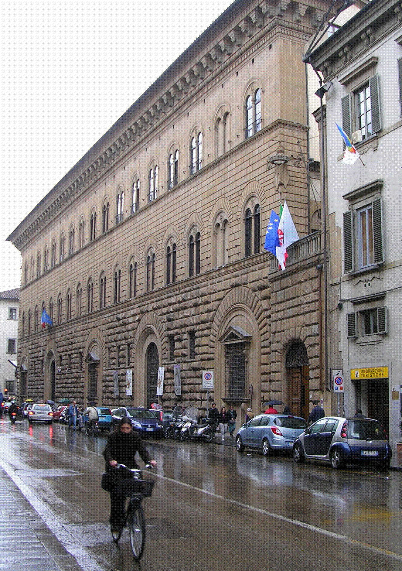 Palazzo Medici Ricardi photographed by Giano who releases all rights into public domain